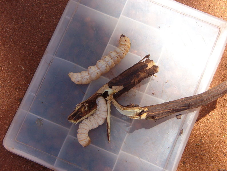 The witchetty grub, in the Australian outback